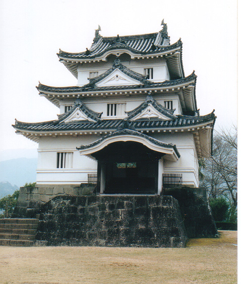 Keep Tower of Uwajima Castle (Japan's national important cultural property). Uwajima City, Ehime, Japan